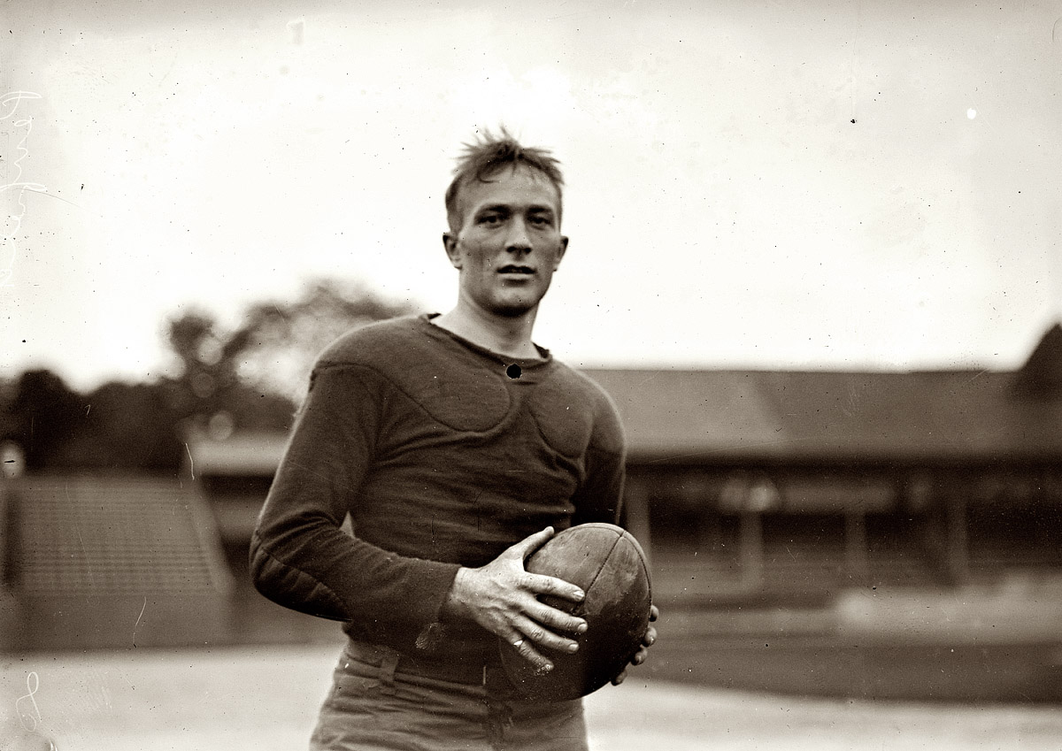 Wilder Penfield, American born Canadian neurosurgeon, as a student at Princeton University